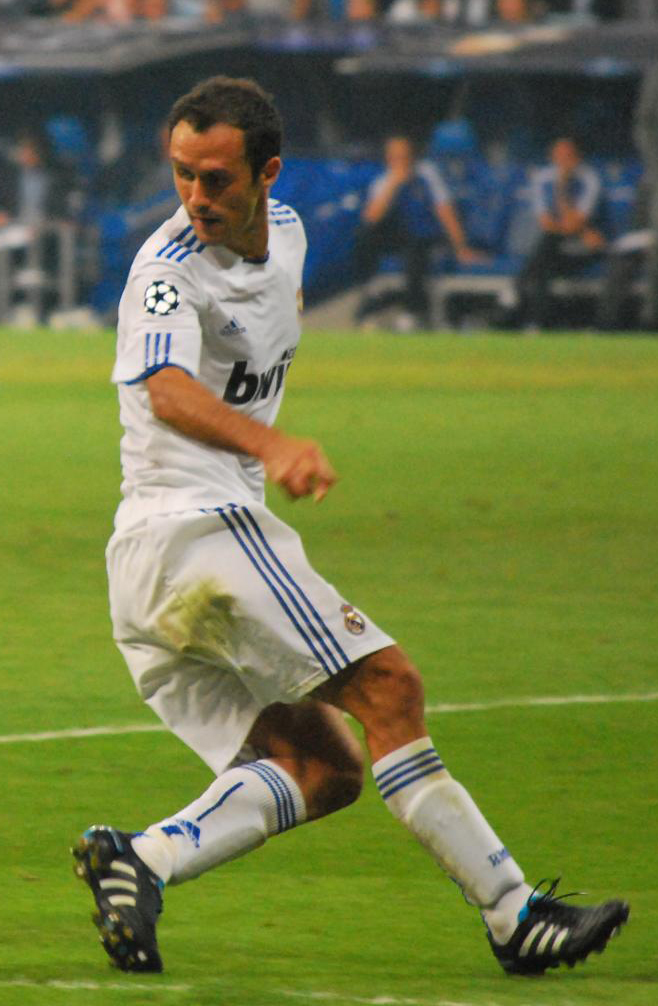 Carvalho in Real Madrid 2 - Ajax 0